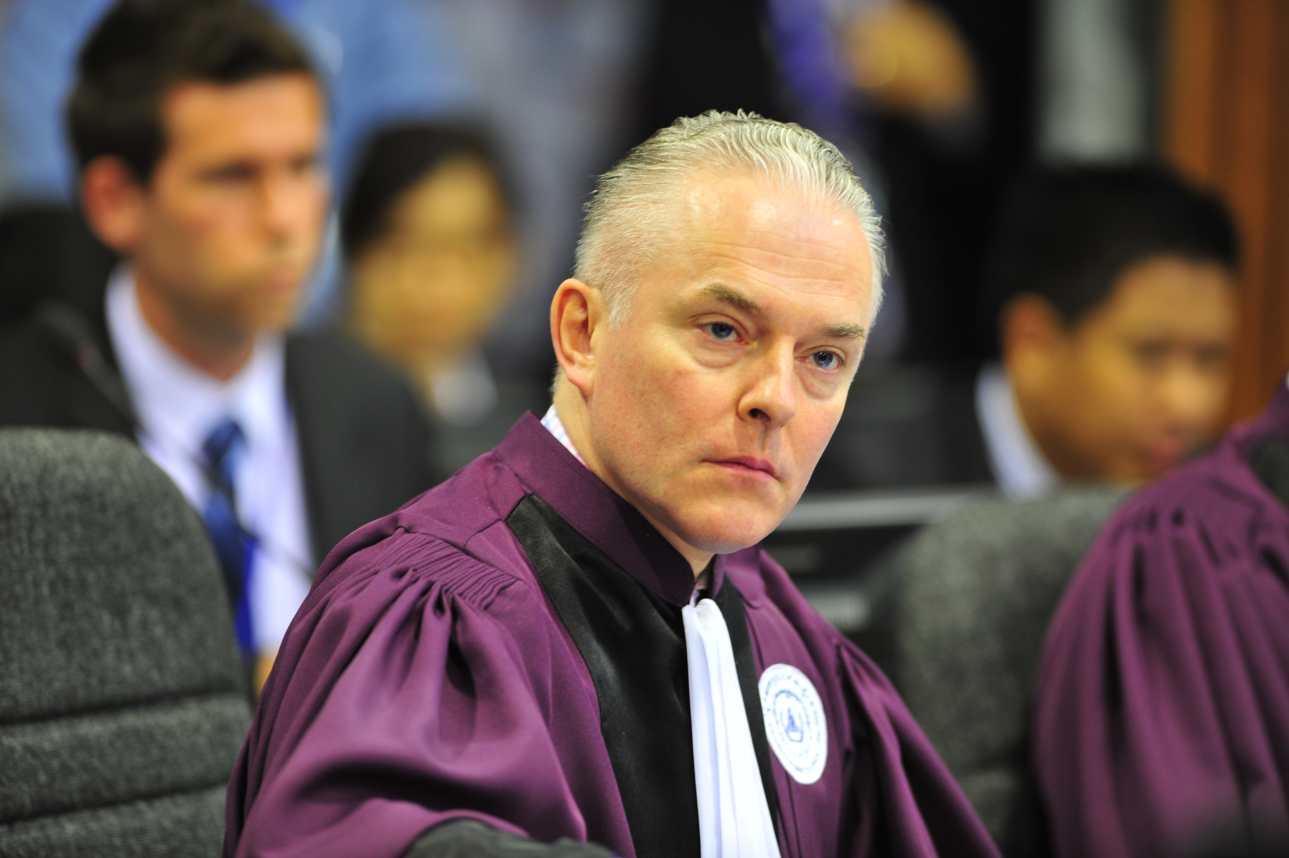 International Co-Prosecutor Mr. Andrew Cayley during the second day of the initial hearing in Case 002.